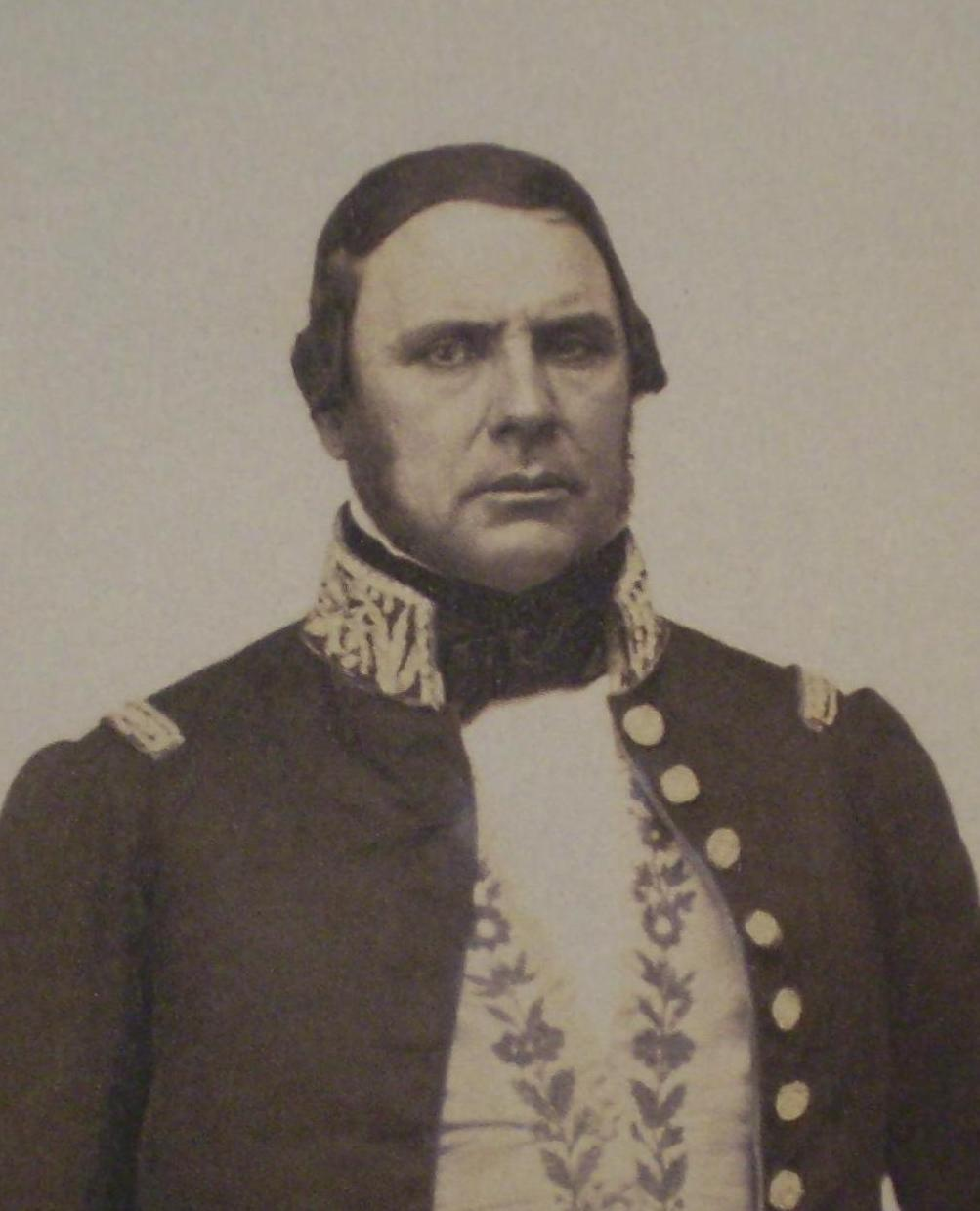 Smaller version of photo of Justo José de Urquiza from Argentina to be used in his bio box.